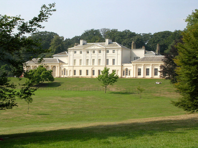 Kenwood House